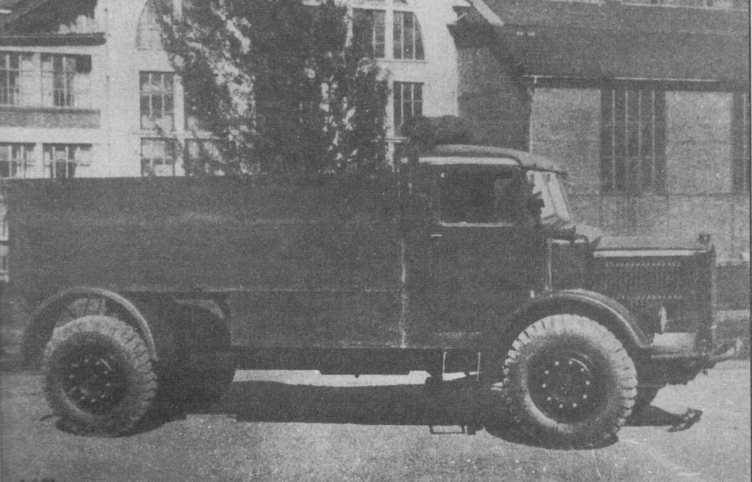 Tatra 27